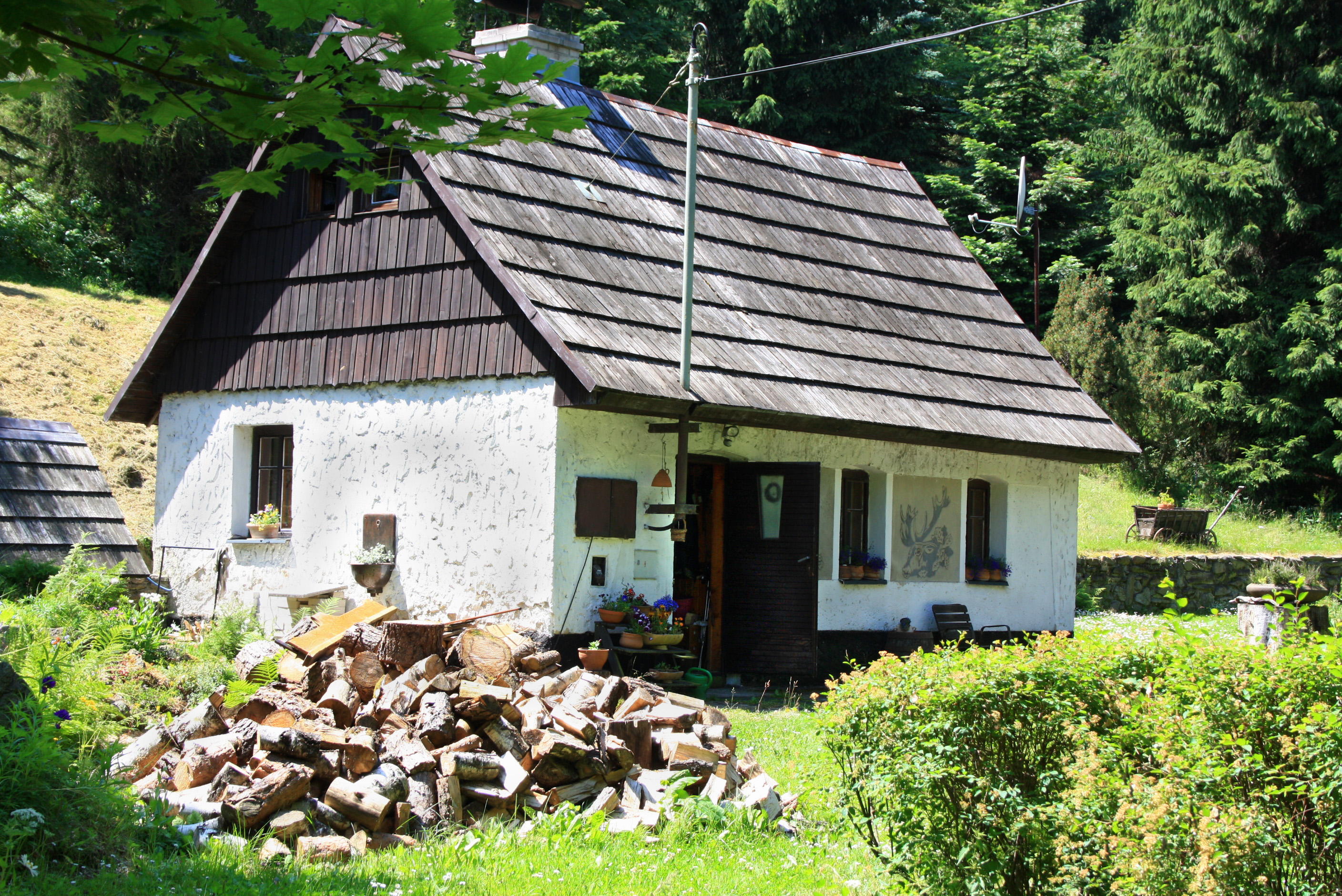 Old gamekeeper's lodge at Mezihoří village, part of Blatno, Czech Republic